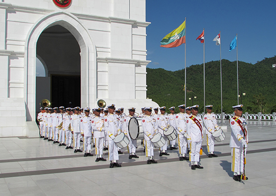 A Burmese military band in Russia